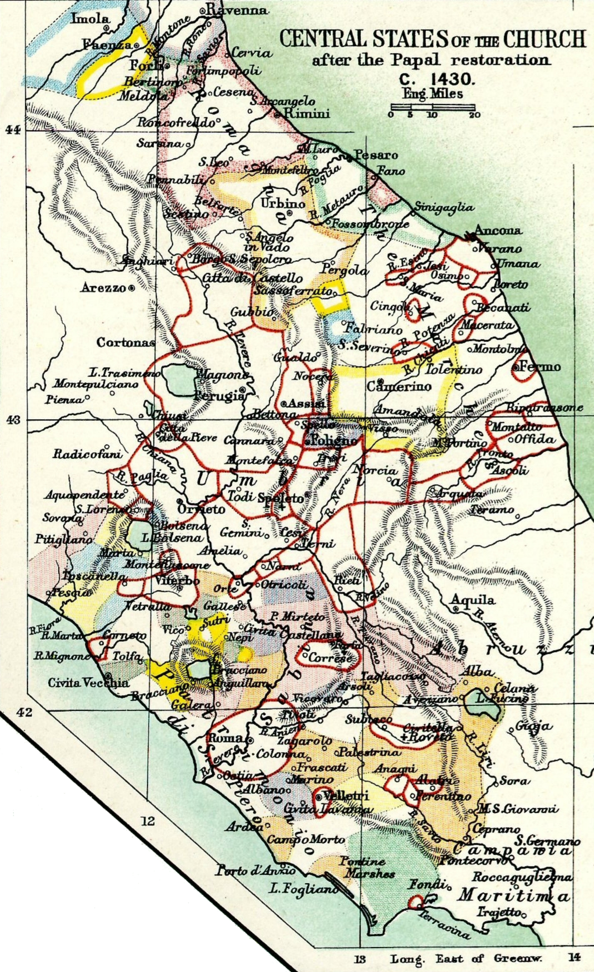 "Central States of the Church after the Papal Restoration c. 1430", an inset map from Plate 68 in Reginald Lane Poole's Historical Atlas of Modern Europe